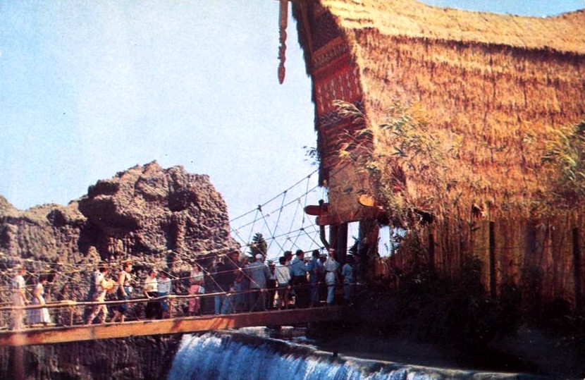 Postcard photo of the South Sea Island at Pacific Ocean park, Santa Monica, California.